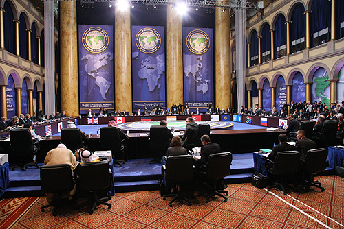 WASHINGTON, USA. Working sessions of the G-20 heads of states and governments.